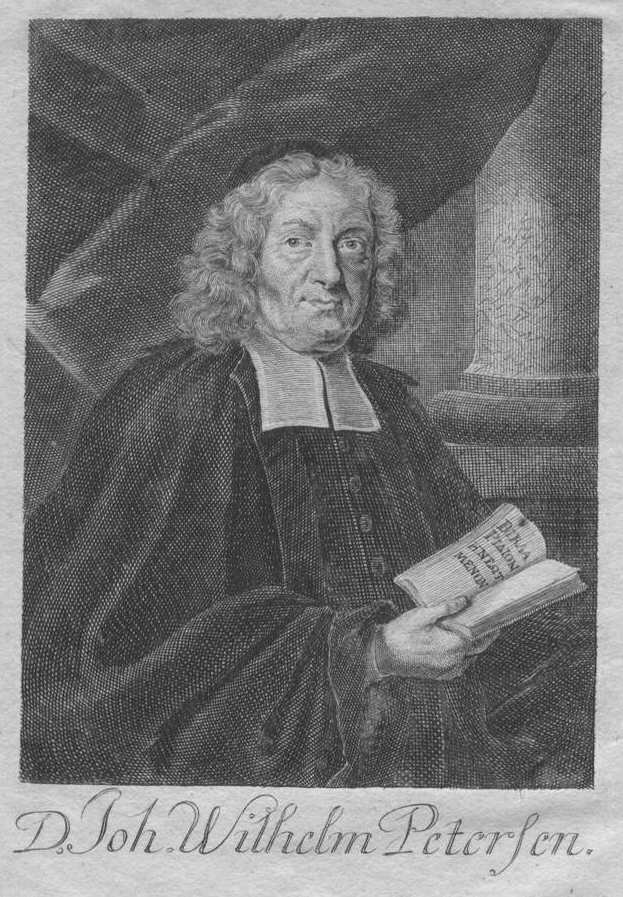 portrait of Johann Wilhelm Petersen, copper engraving, picture: 118x87 mm; plate: 150x96 mm